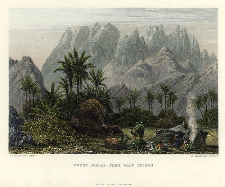 mount serbál—from wády feirán.